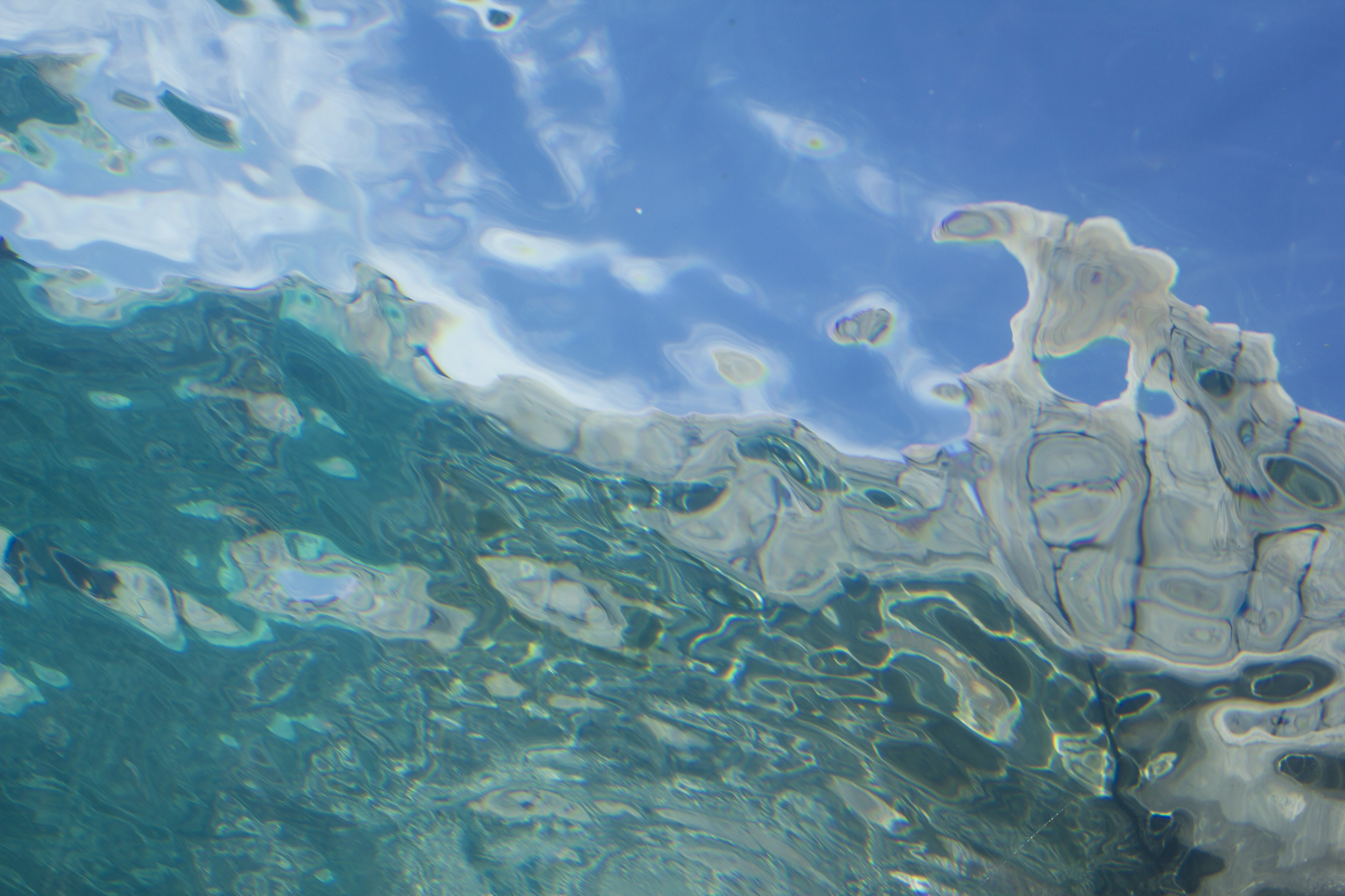 The edge of Snell's window as seen through an underwater tunnel at the St. Louis Zoo, showing a mix of reflection (most of the bottom left of the image) and refraction (most of the top right of the image) due to waves on the surface.